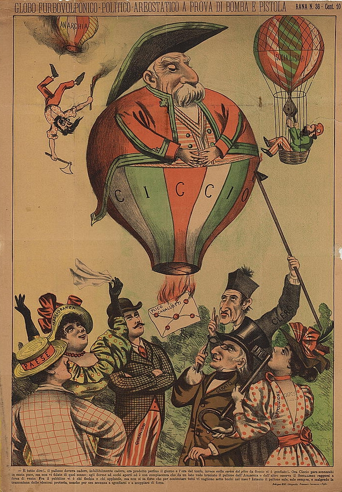 Library of Congress description: "Italian caricature of Italian statesman Francesco Crispi shown as a balloon "Ciccio" hovering above a group of men and women representing the country, the majority, the press, the opposition, the government, and the church fueled by the words of his critics. Crispi appears to be piloting the Italian ship of state through stormy skies, surrounded by anarchy and socialism."